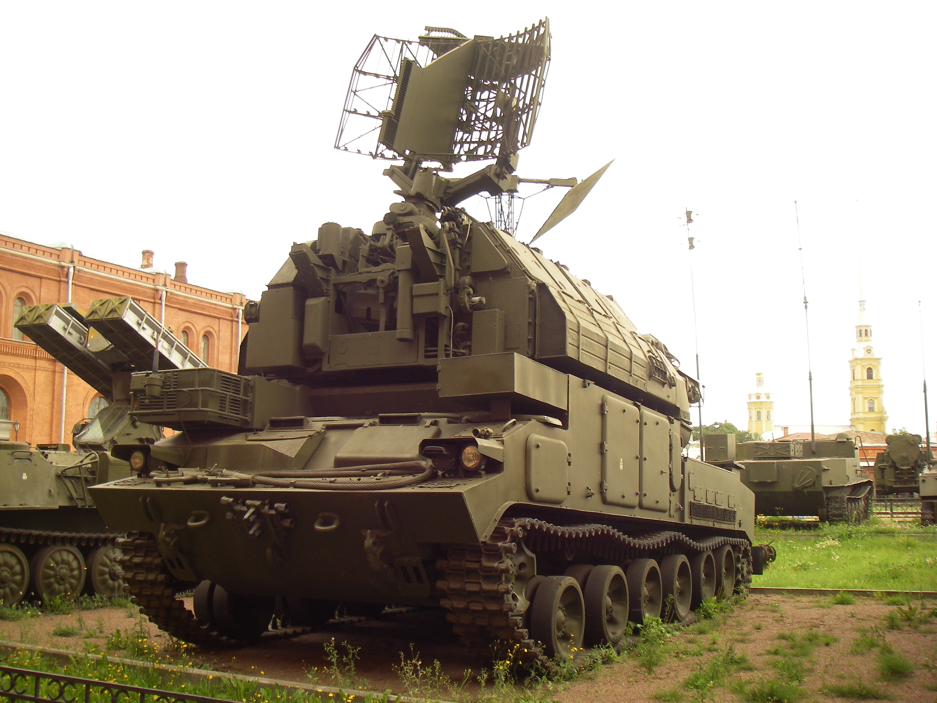 A 9A330 Transporter-Erector-Launcher and Radar with 9M330 missiles of the surface to air missile complex 9K330 «Tor» in Saint Petersburg Artillery museum